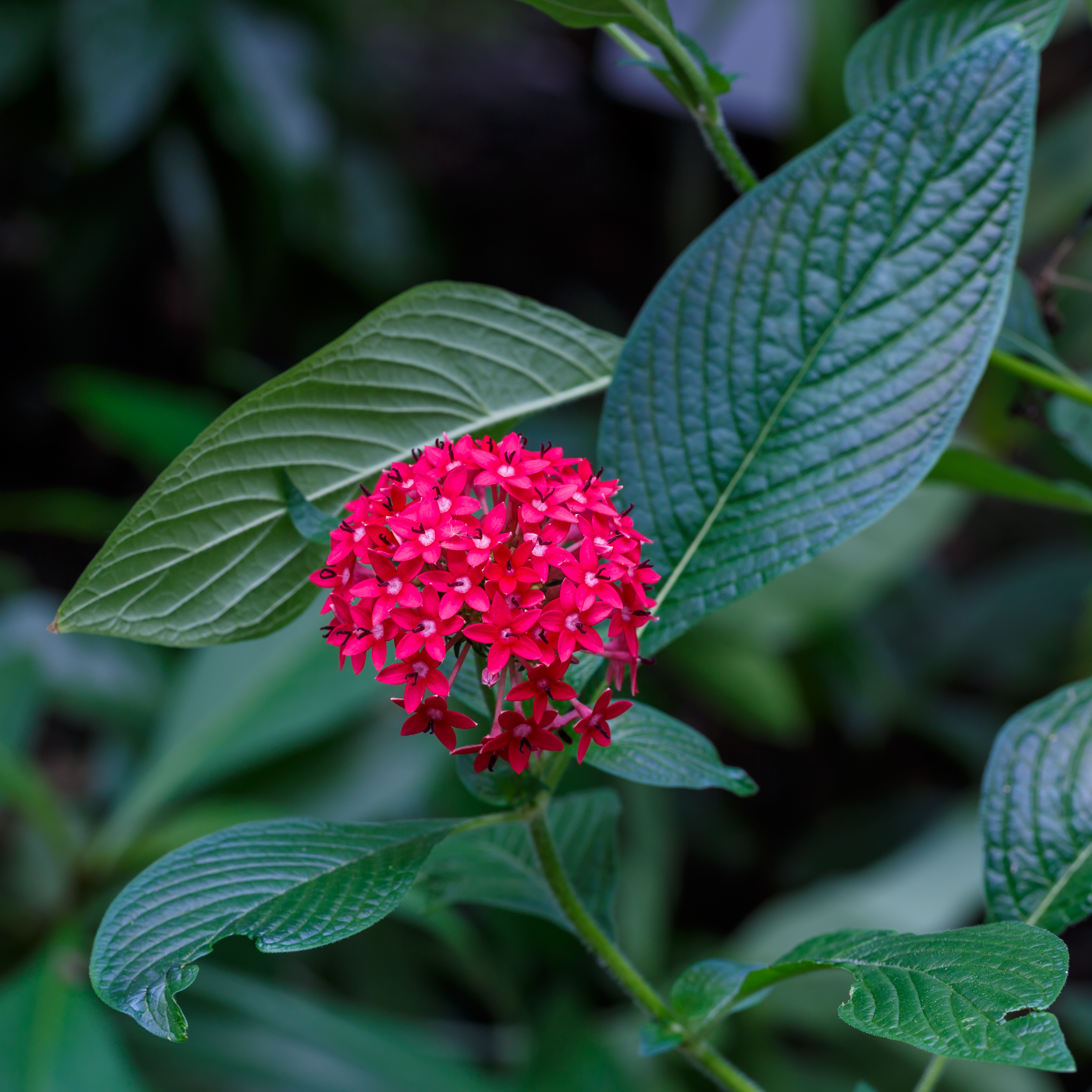 Cologne, Germany: Star of Egypt (Pentas lanceolata) in the "Flora Köln" gardens